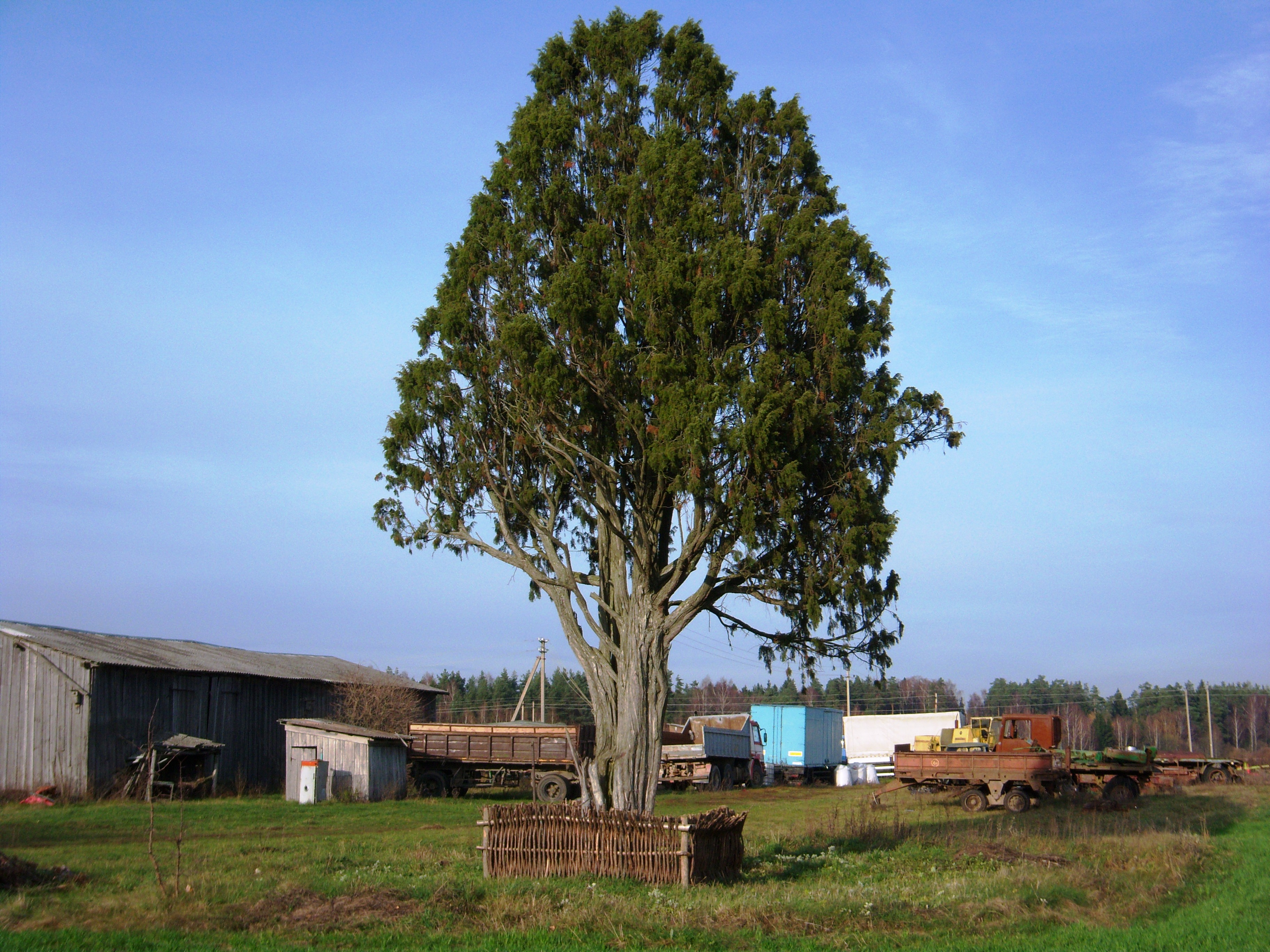 Common juniper (Juniperus communis), in Pakuodžiupiai, Panevėžys District, Lithuania